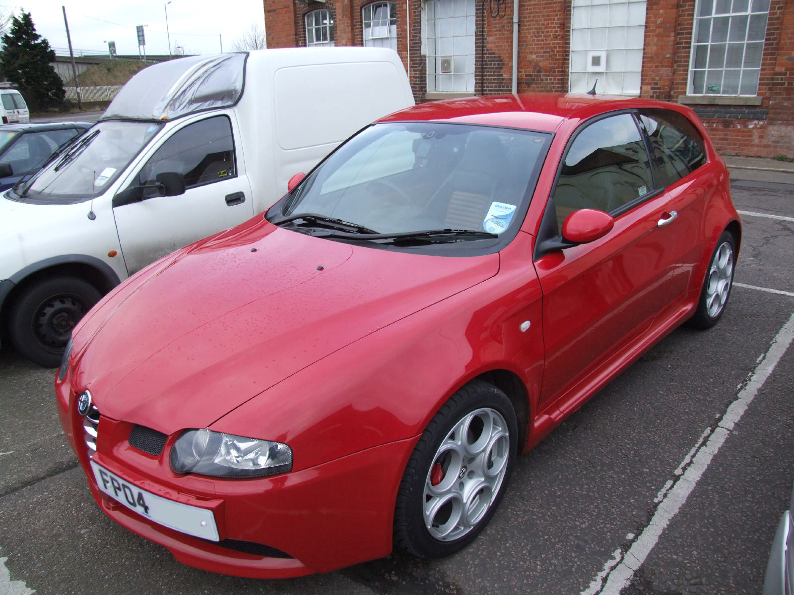 Alfa Romeo 147 GTAOriginal photograph modified (removed license plate numbers)